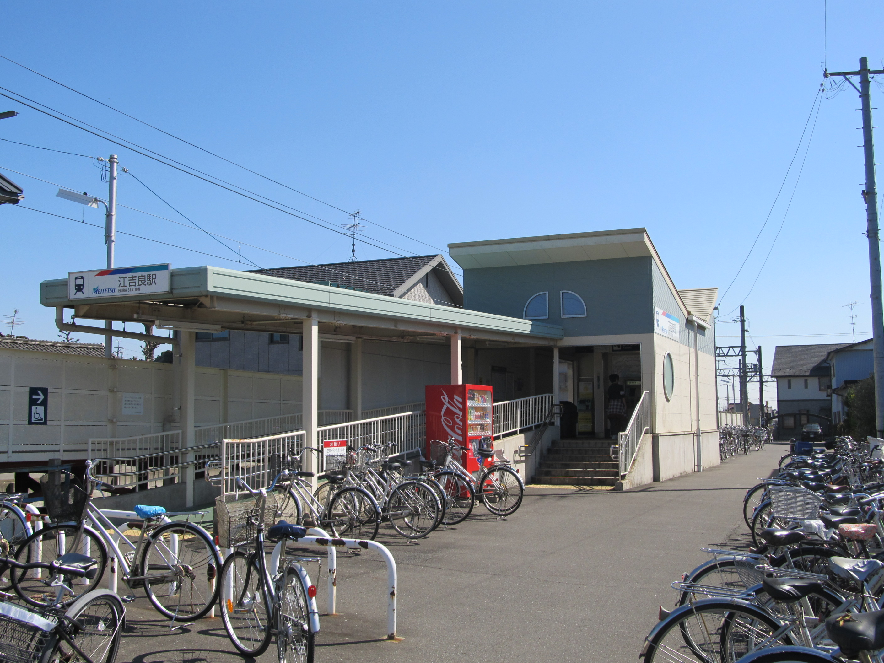 Nagoya Railroad Takehana Line and Hashima Line Egira Station Building.